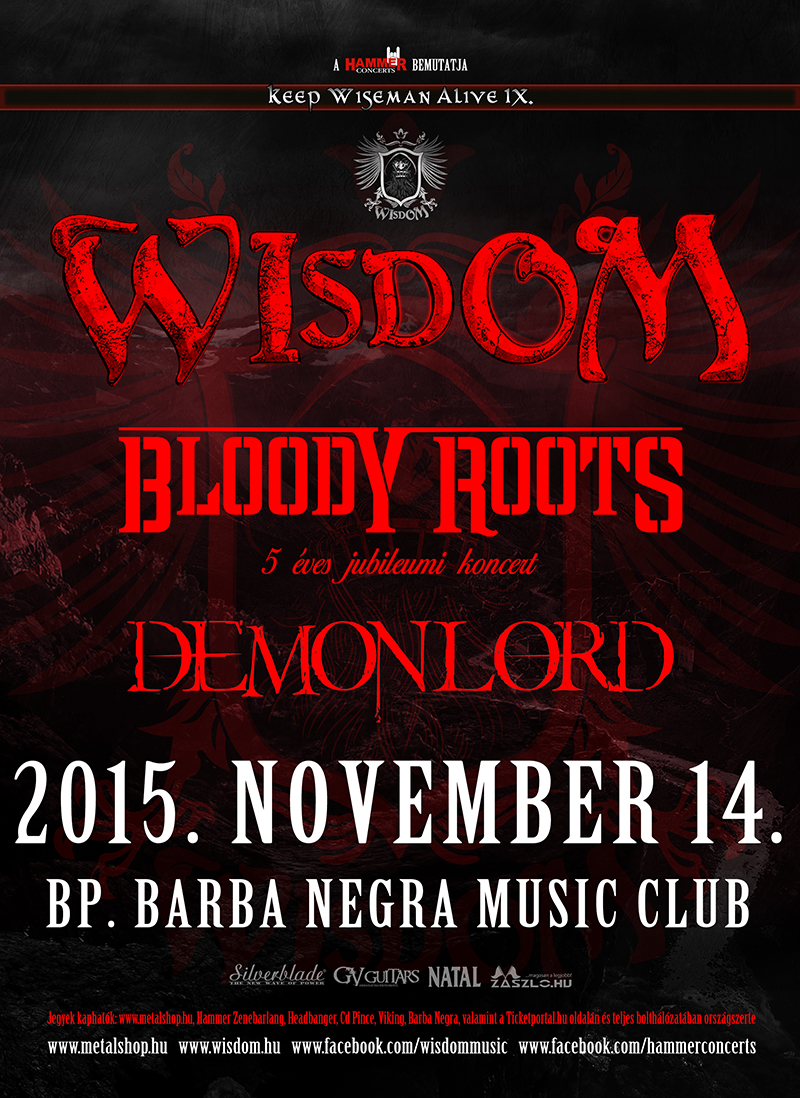 This flyer was made for the Keep Wiseman Alive IX show in 2015.